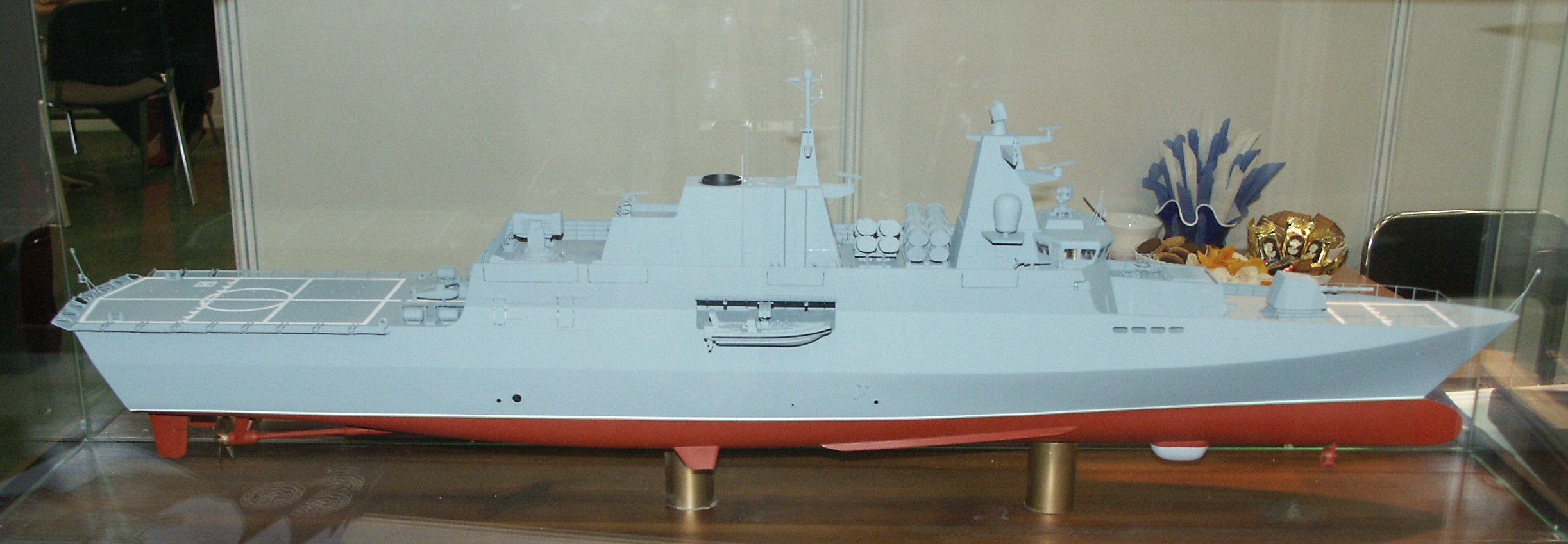 Shipyard model of the Project 621 (Gawron) class corvette for the Polish Navy.